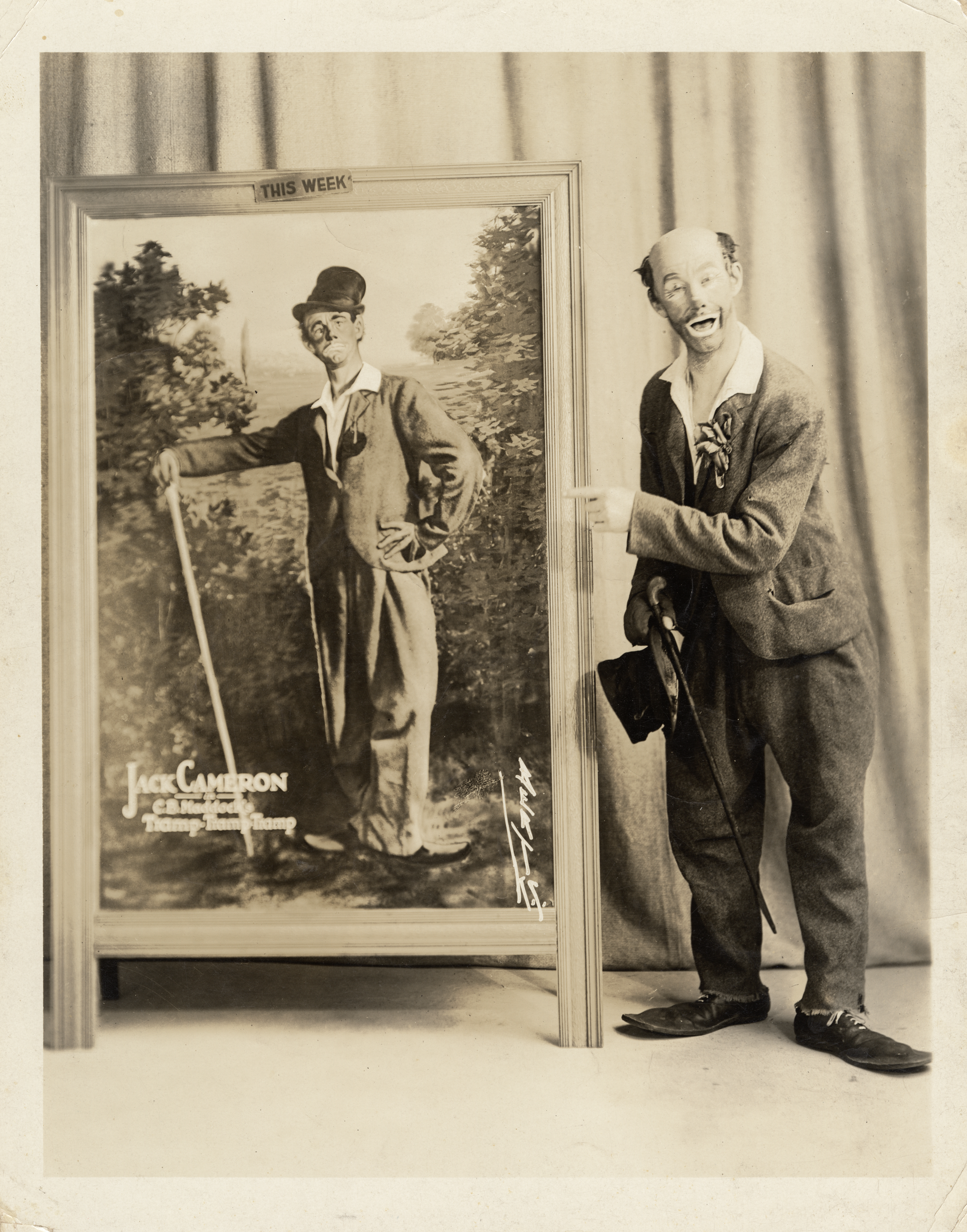 Publicity photograph of vaudeville comedian, Jack Cameron (aka Jack Kammerer), taken for C.B. Maddock's "Tramp, Tramp, Tramp: A Song of the Road." Photo by Burdette Emery Wetherwax of Bert's Studio, 127 W. 12th Street, Kansas City, Missouri.